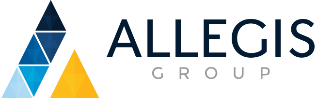 Allegis Group company logo